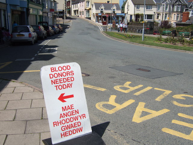 West Street, Fishguard, on a Sunday. This stretch is known locally as The Golden Mile with a view of the harbour to the right. Twice yearly the Welsh Blood Collection Service sets up shop in the Junior School to the left.